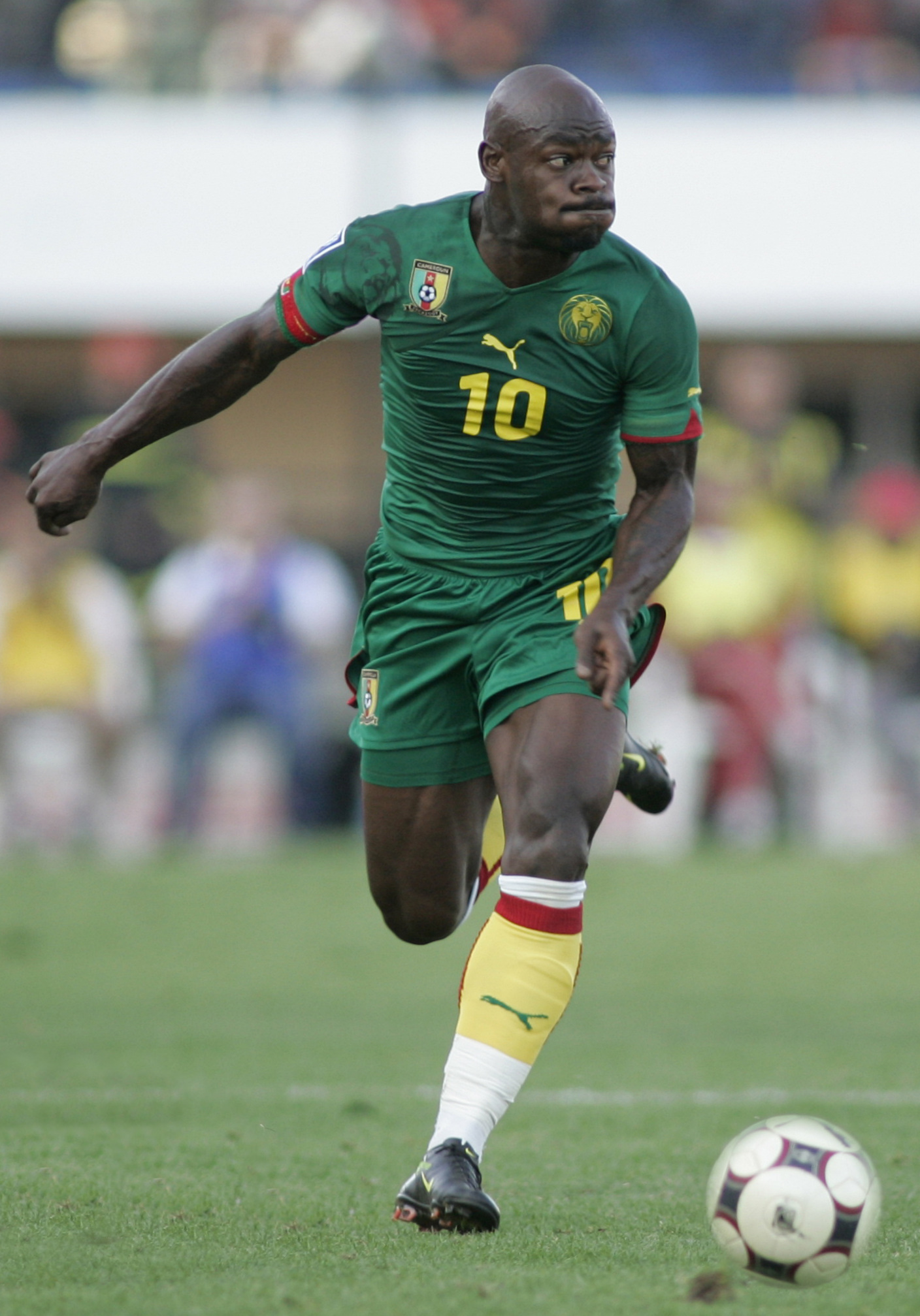 Achille Emana of Cameroon This file has been extracted from another file: Achille Emana vs Adel Taarabt.jpg